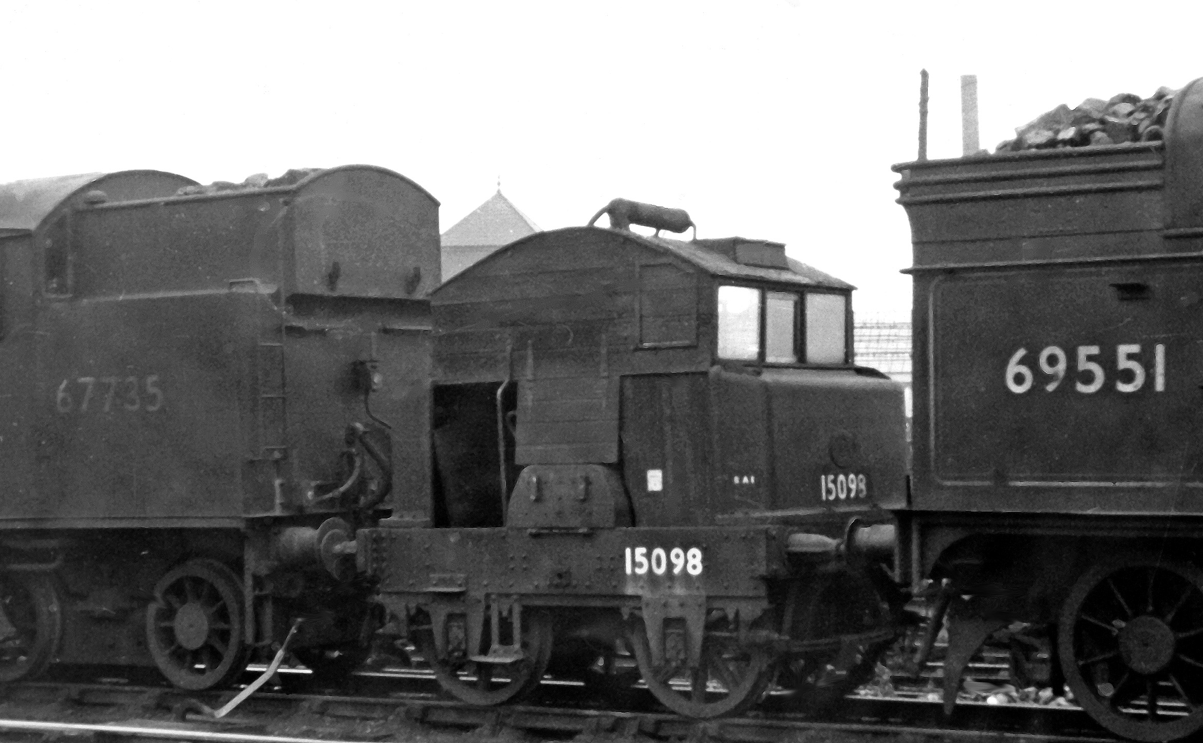 Petrol-electric shunting 'locomotive' at Stratford Depot. Believe it or not, this was a locomotive. Contrasting with the ordinary steam engines (a 2-6-4T and an 0-6-2T) next to it, No. 15098 was one of three Simplex four-wheel petrol engines belonging to the LNER, used for very light shunting formerly done by horses. It was originally a Departmental engine on the Great Eastern, numbered 8430 in Class Y11 by the LNER and finally 15098 by BR. Built in 1919, it spent six years at Lowestoft Harbour, then the rest of its life at Brentwood until September 1956.